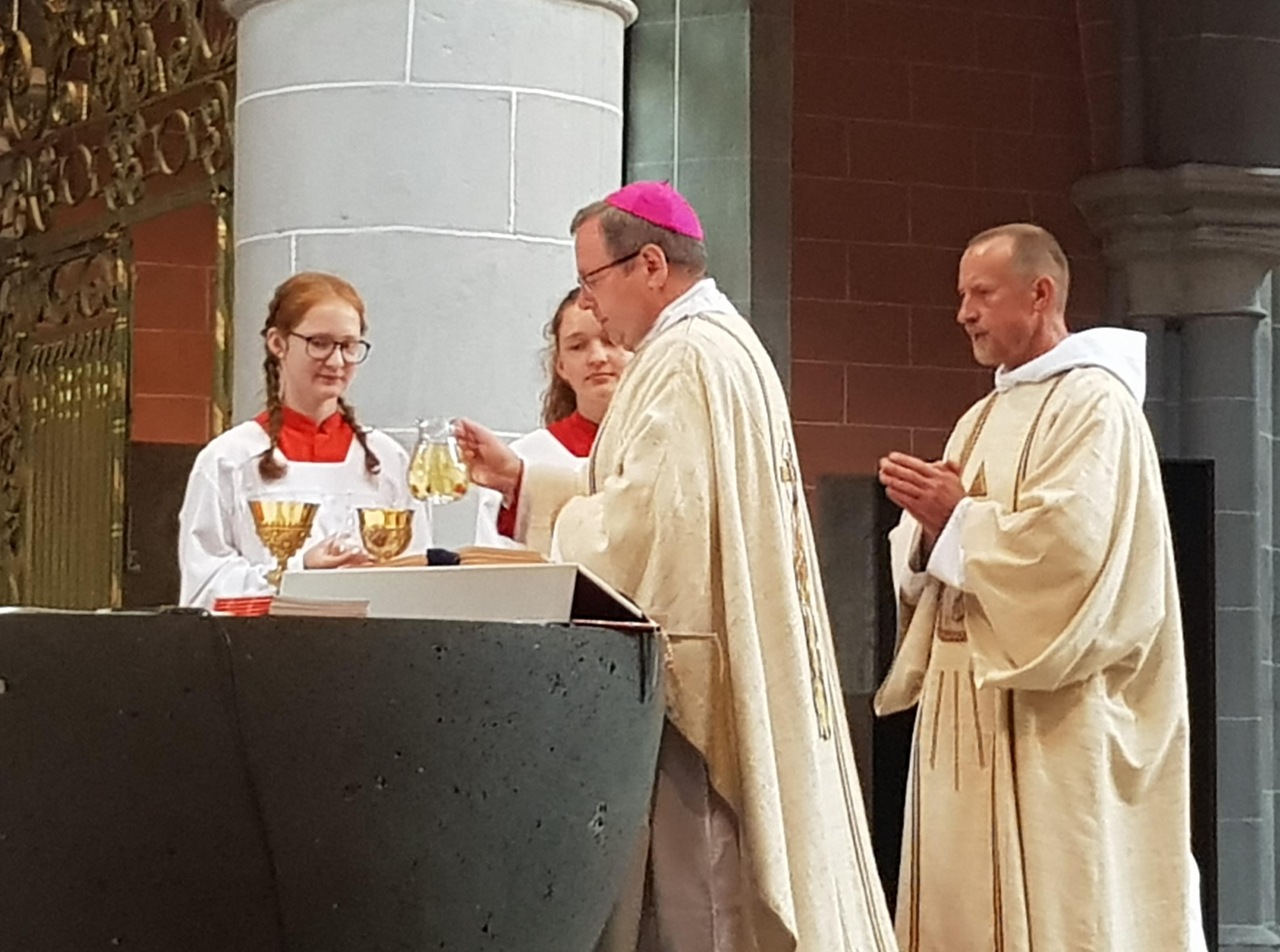 Prayer Marienstatt